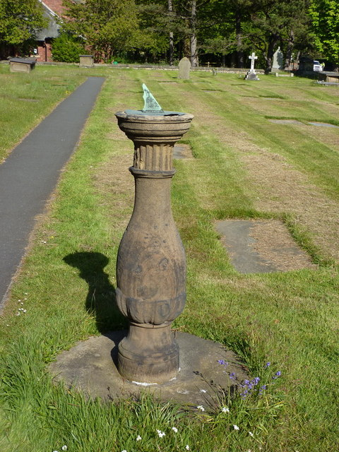 Sundial in St Cuthbert's parish churchyard, Lytham, Fylde, Lancashire